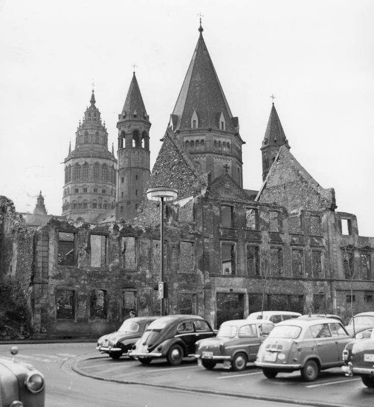 Saint Martins cathedral, Mainz, after the strategic bombing of the british Royal Air Force on 27th february 1945. Cars and destroyed houses of the Scharngasse in the forefront